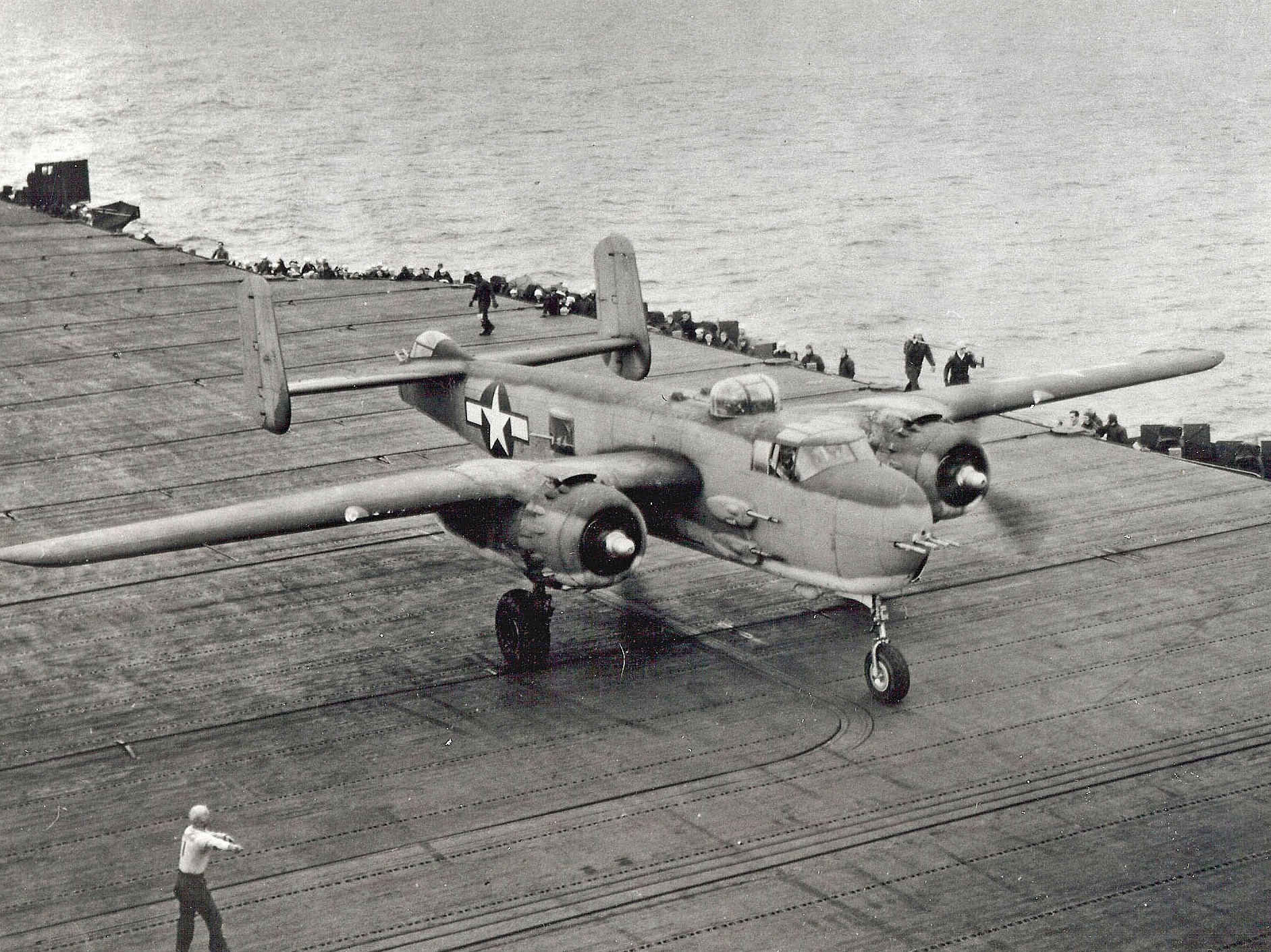 A North American PBJ-1H Mitchell on the flight deck of the U.S. Navy aircraft carrier USS Shangri-La (CV-38) during tests of the airplane's carrier suitability, 15 Novermber 1944.